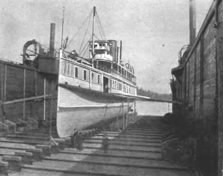 steamboat Flyer in floating drydock at Quartermaster Harbor on Maury Island, taken between 1890 (year of construction) and 1895 (year of publication)